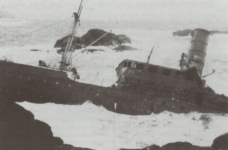 The wrecked Norwegian coastal express ship (Hurtigruten) SS Sanct Svithun. Built in 1927, she was sunk by British aircraft in September 1943. Norsk (bokmål): Vraket av DS «Sanct Svithun», bygd i 1927. Skipet ble senket av britiske fly 30. september 1943 utenfor Stadlandet.